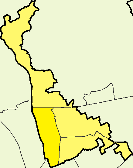 Kontovathkia in Mesa Geitonia.